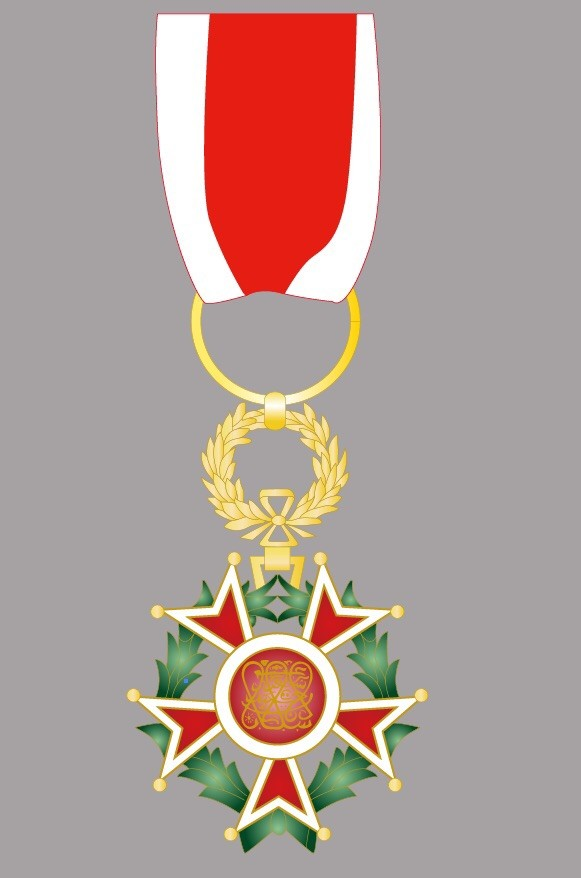 Order of the Brilliant Star of Zanzibar II grade Officer badge